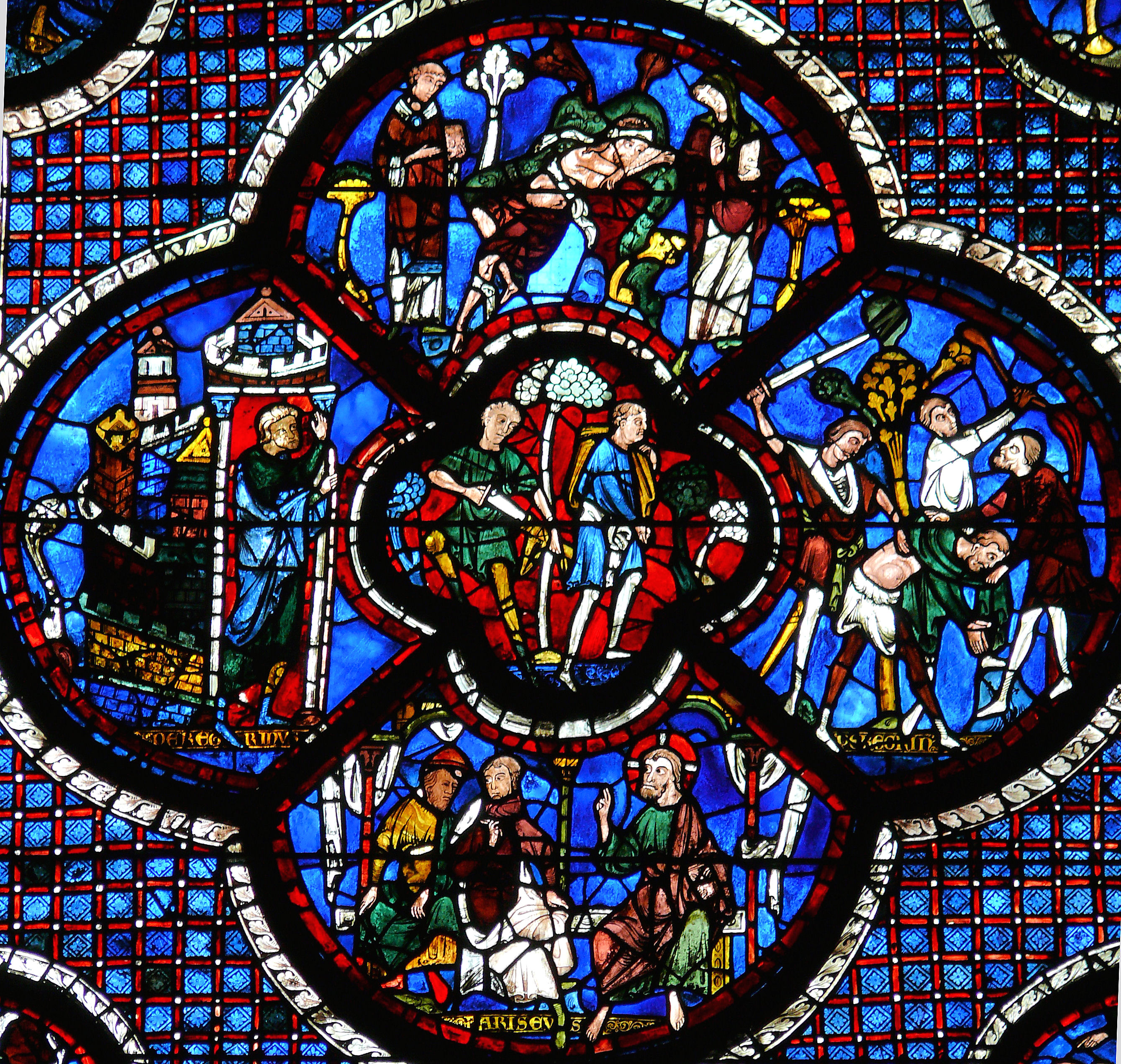 Panels 4, 5, 6, 7 and 8.